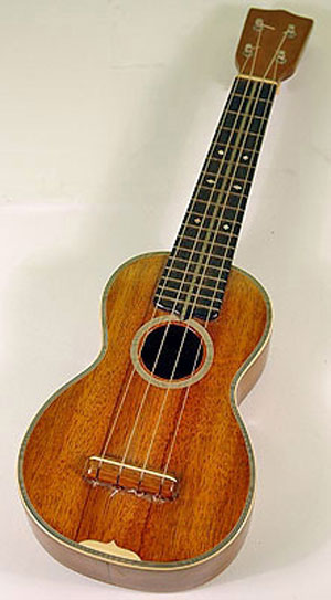 Martin Ukulele 1930 - Style 3K Martin Ukulele 1930 - Style 3K